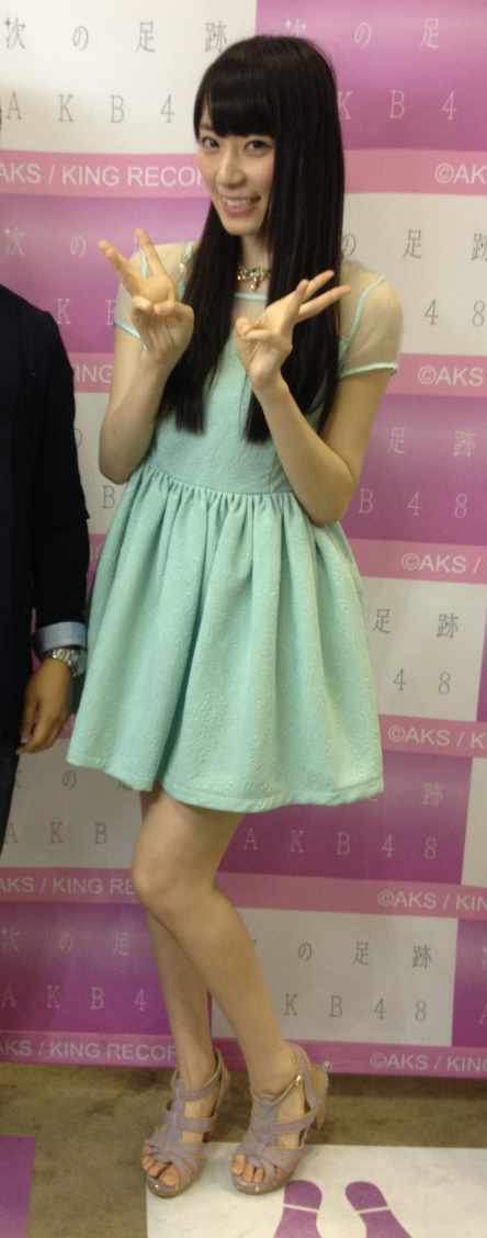 This is the picture of Sakiko Matsui who is a menber of AKB48, Japanese pops group.